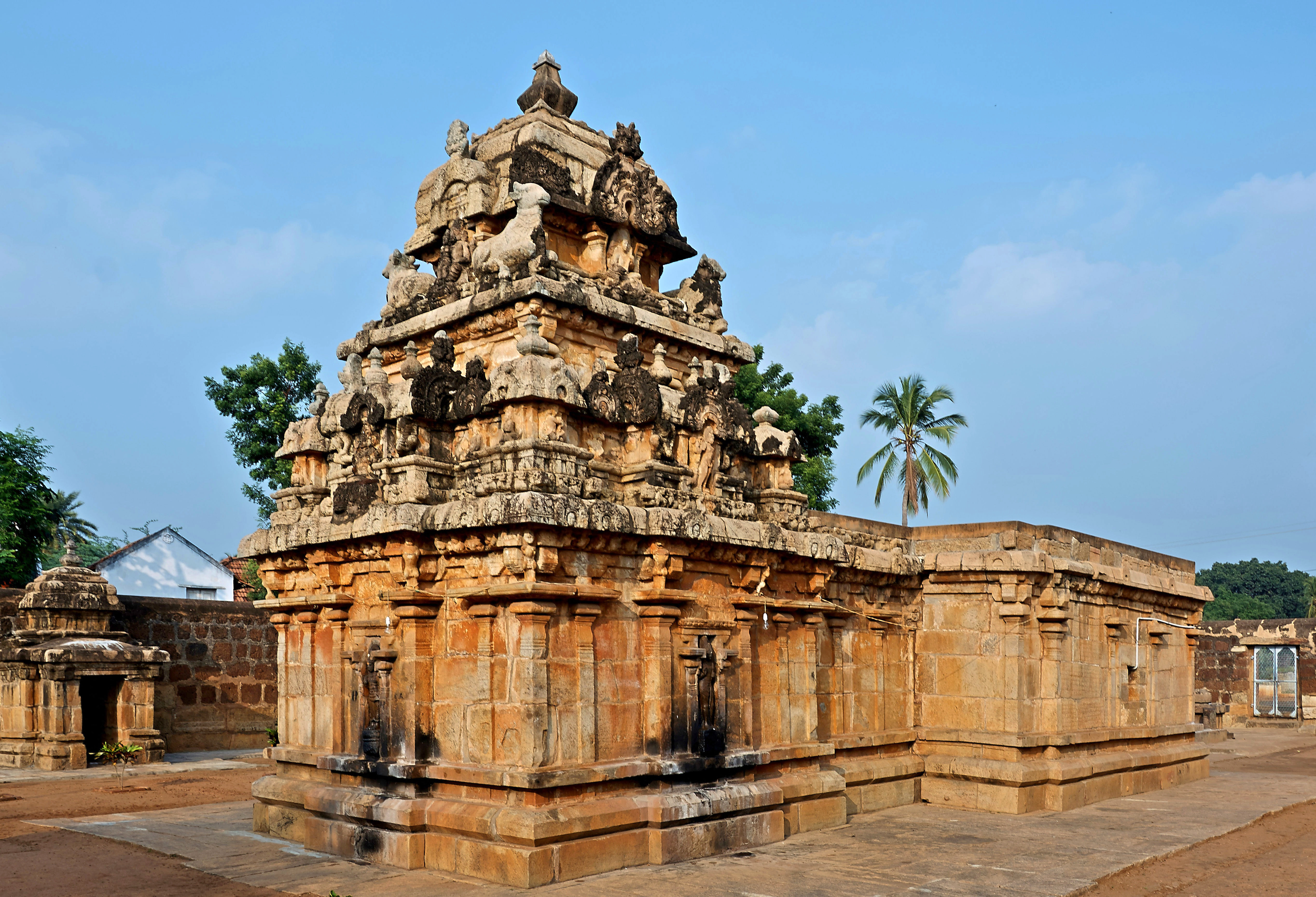 Sundaresvara Temple at Thirukkattalai In Pudukottai District An east facing view